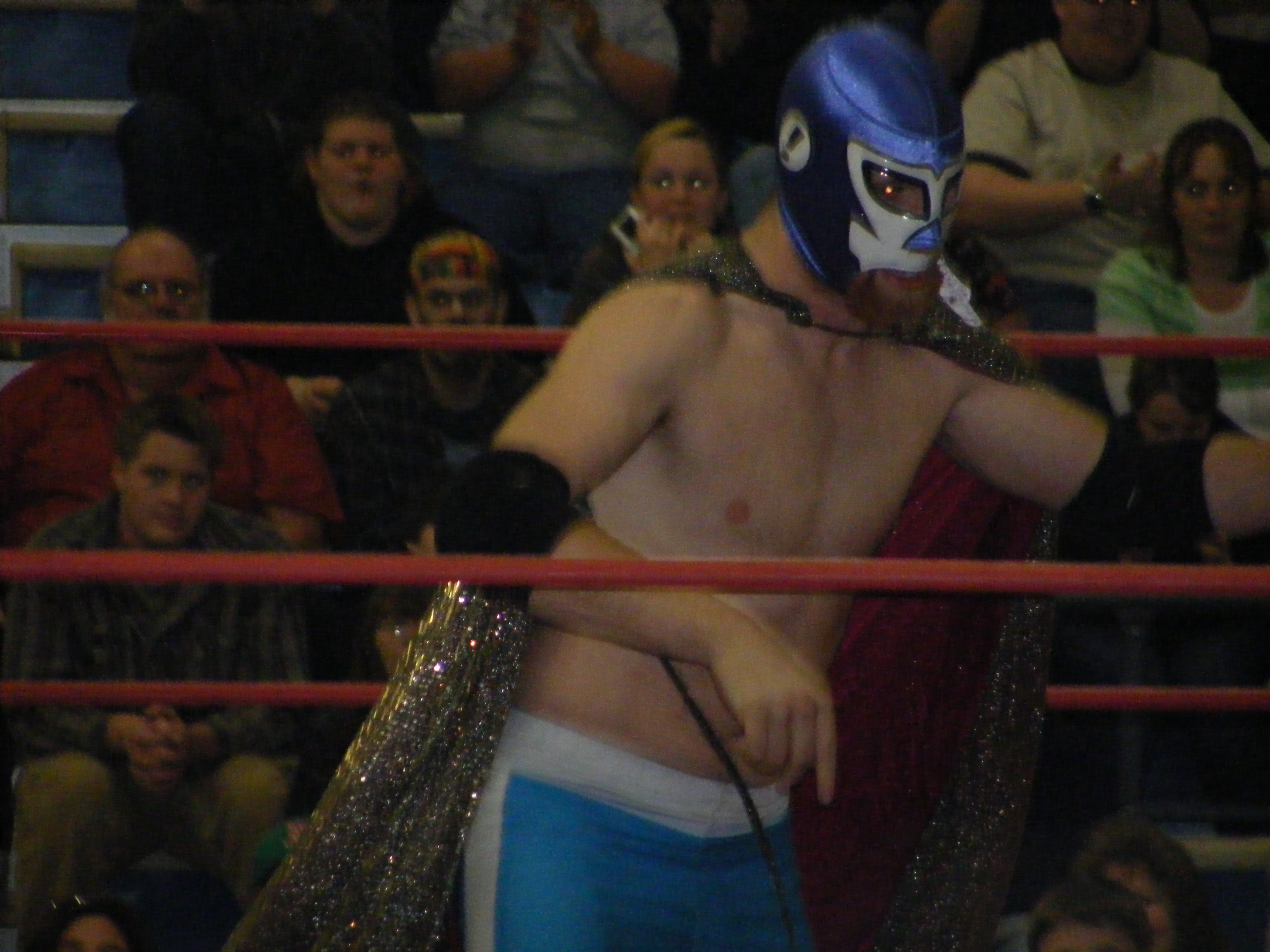 Professional wrestler EL Generico in May 2008 at an APW show